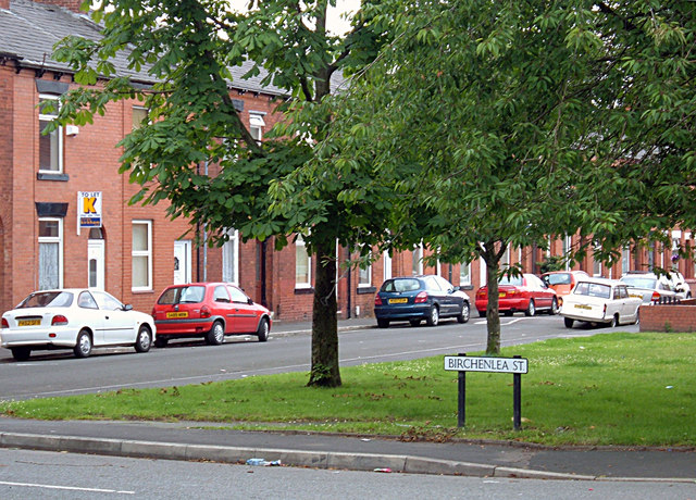 Birchenlea Street, Oldham Looking from the corner of Turf Lane and Coalshaw Green Road in the Coalshaw Green area of Chadderton.